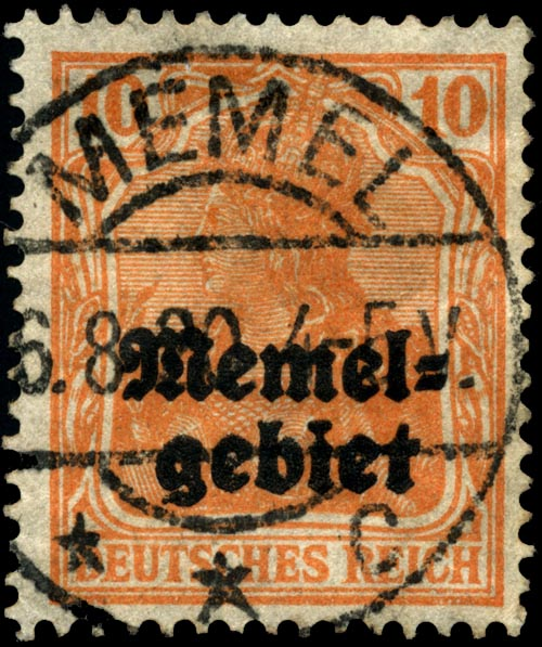 Memel 10pf overprint stamp of 1920